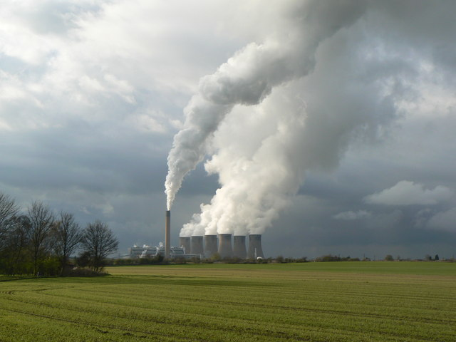 Clouds, natural and otherwise Clouds of steam from Eggborough Power Station rise to merge with an overcast wet sky.